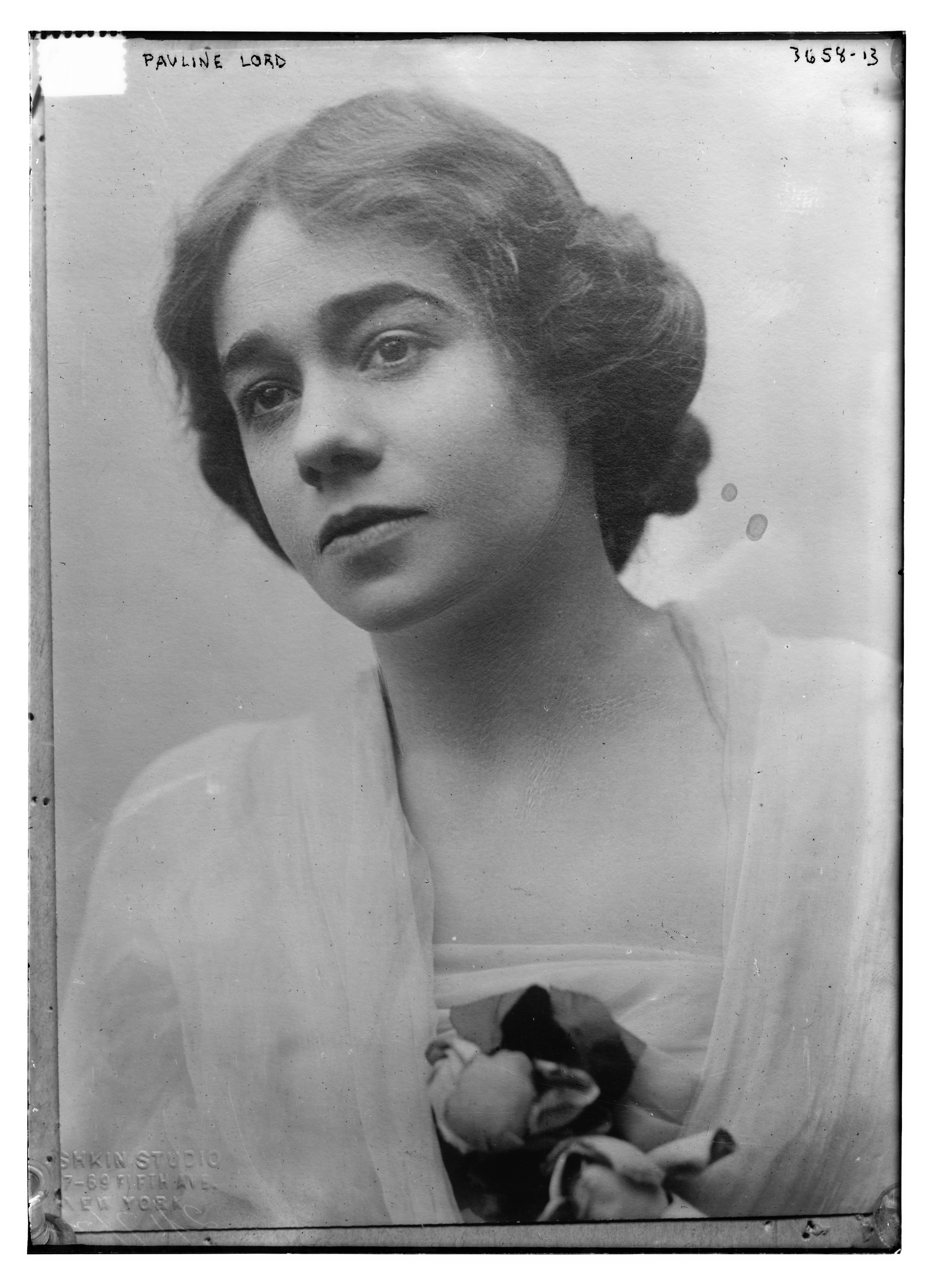 Pauline Lord Summary Photograph shows American stage and film actress Pauline Lord (1890-1950). (Source: Flickr Commons project, 2013)